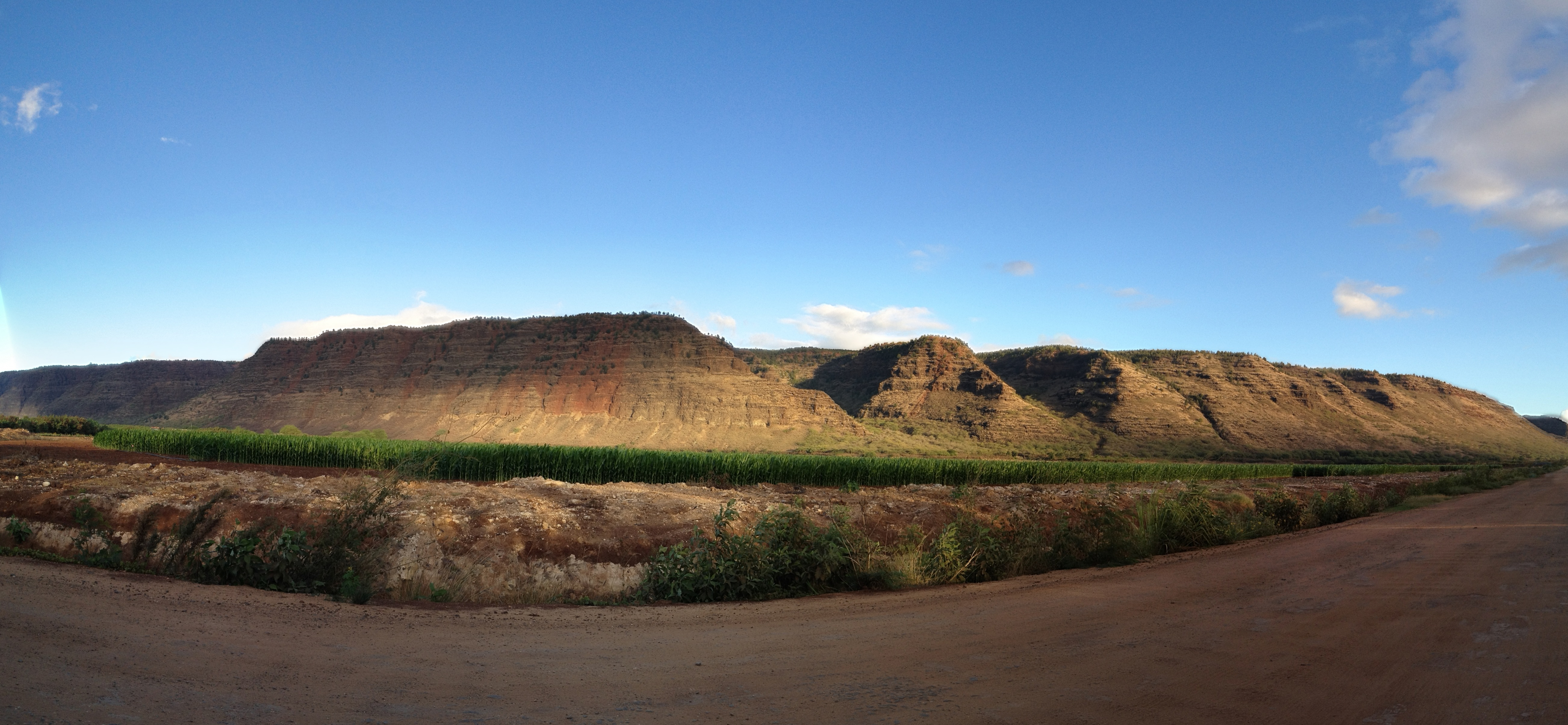 A panoramic view of the ridge enclosing ‘Ohai‘ula Valley, at the western end of the island of Kauai, Hawaii, as seen from the road to Polihale State Park.